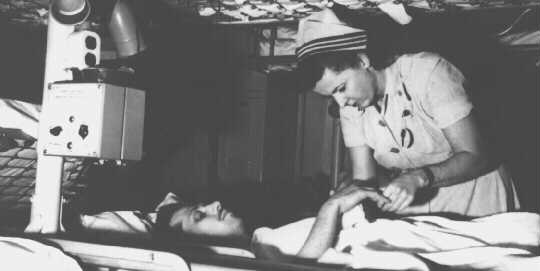 Navy nurse and patient aboard USS Haven. 1950.